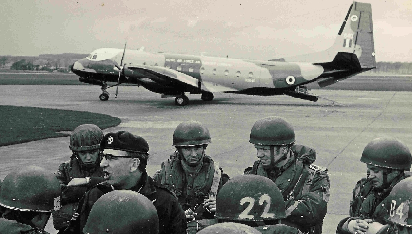 Para Briefing at Macdrop. Taken by Stn Photographer